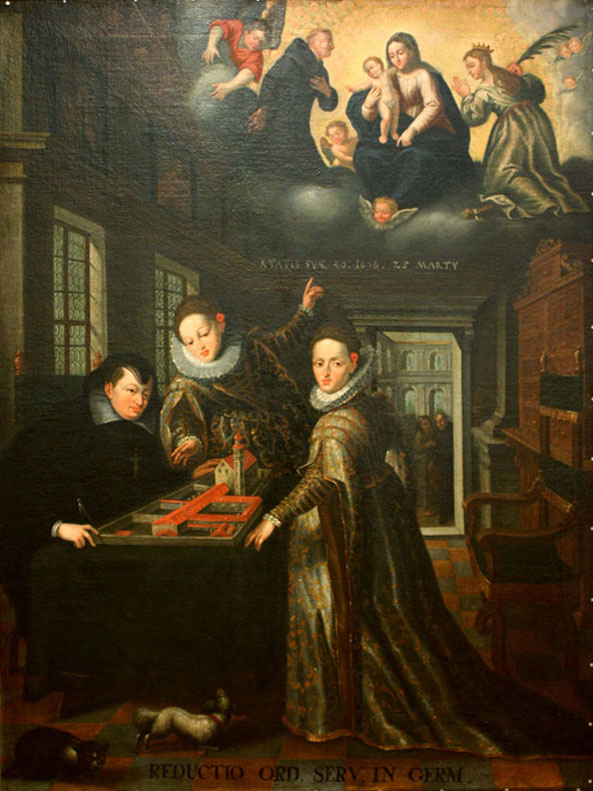 Eighteenth century copy of seventeenth century painting showing Anne Juliana Gonzaga with her daughters Archduchess Maria of Austria (1584–1649) and Anna of Tyrol